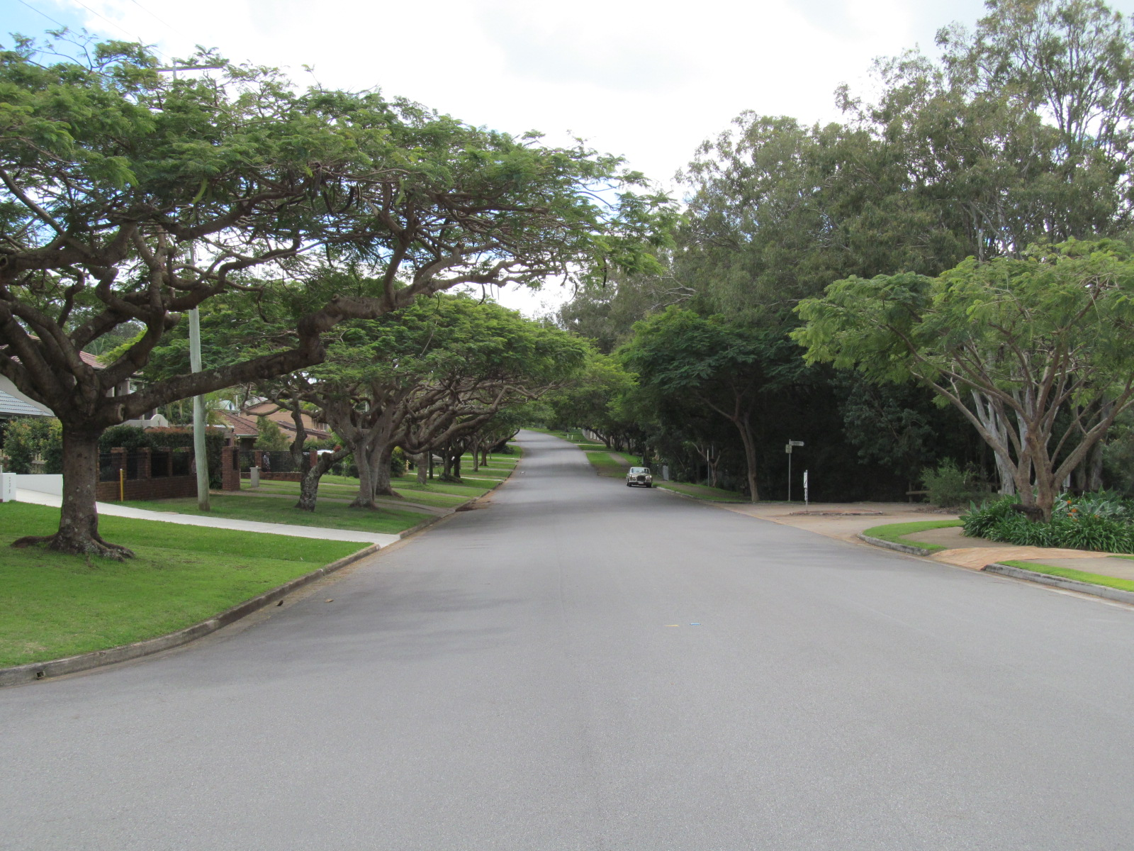 Wellington Street looking north from Oak Street, Ormiston, Redland City, Queensland.